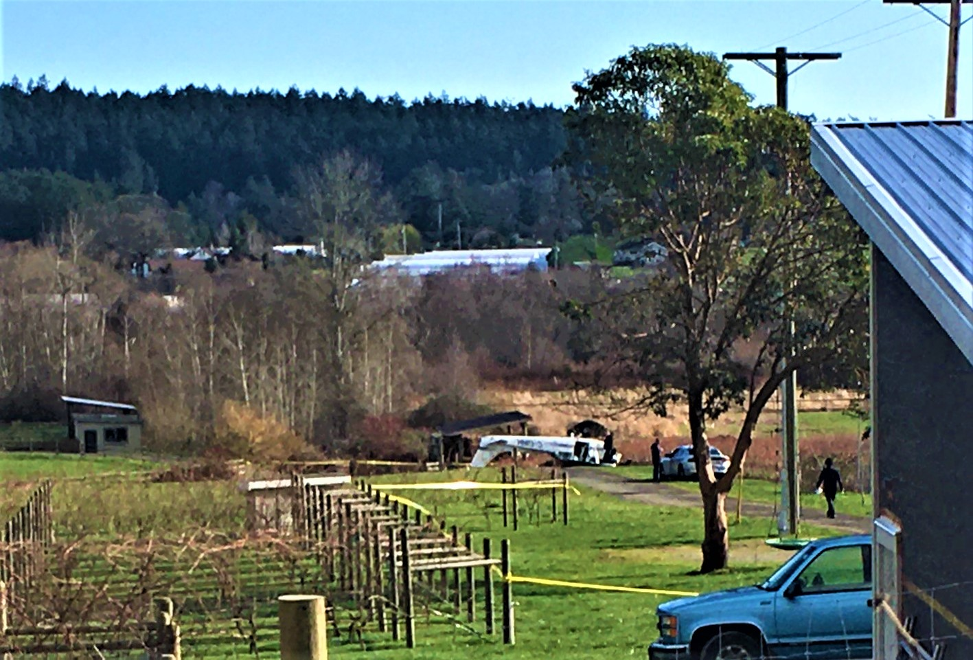 Cessna 172P Skyhawk crashed into a Blenkinsop Valley farm in Saanich BC on the morning of February 18, 2020.